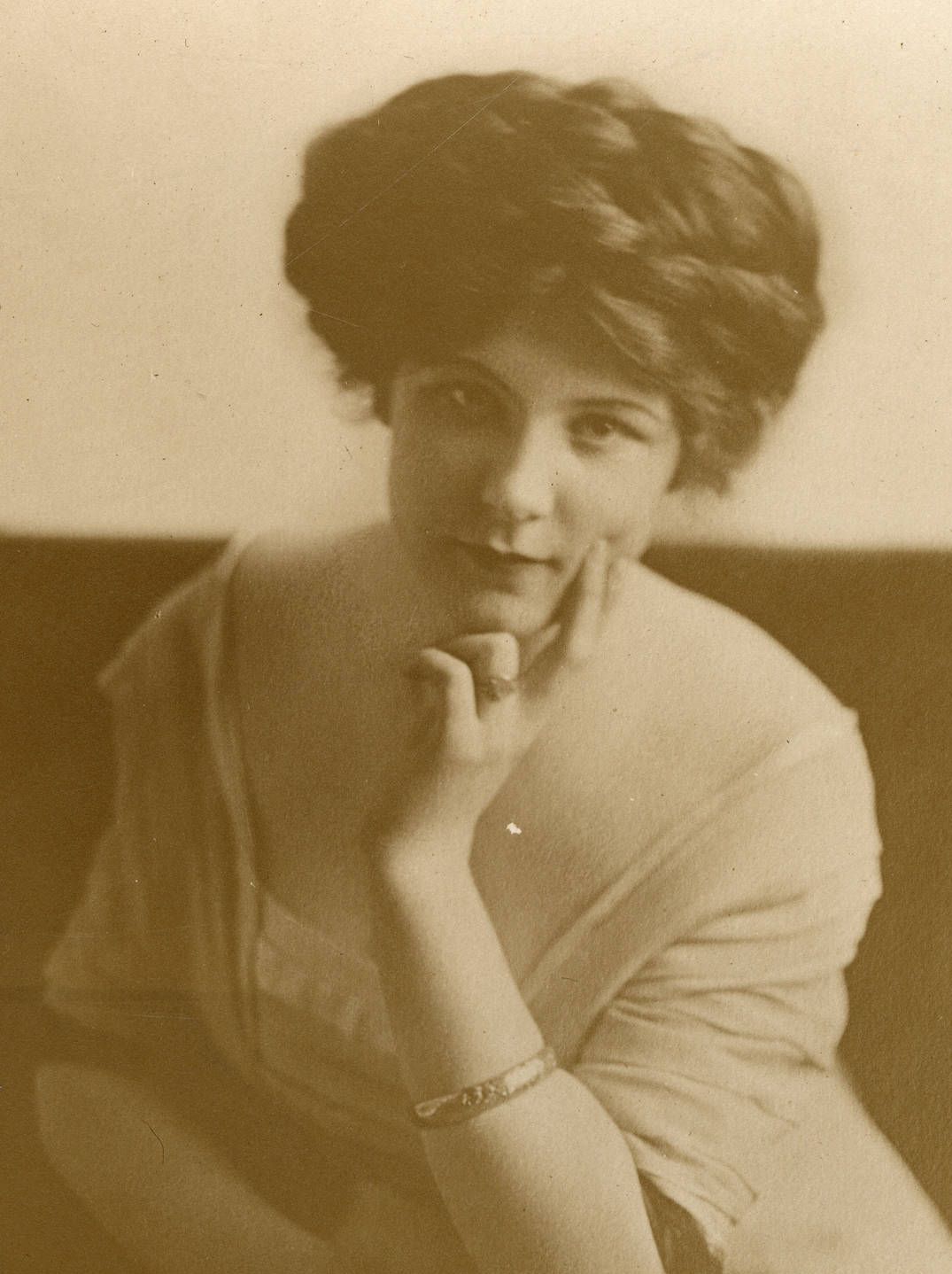 Mary E. Ryan, silent film actress Subjects: actresses